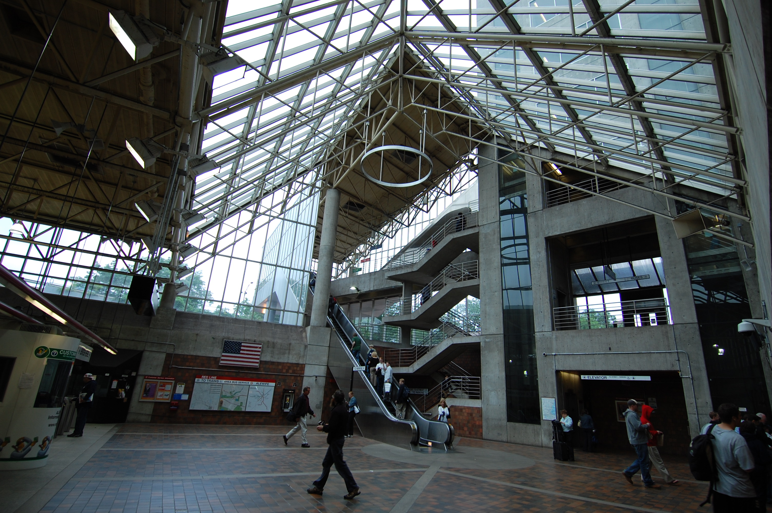 Inside the large glass lobby of Alewife station